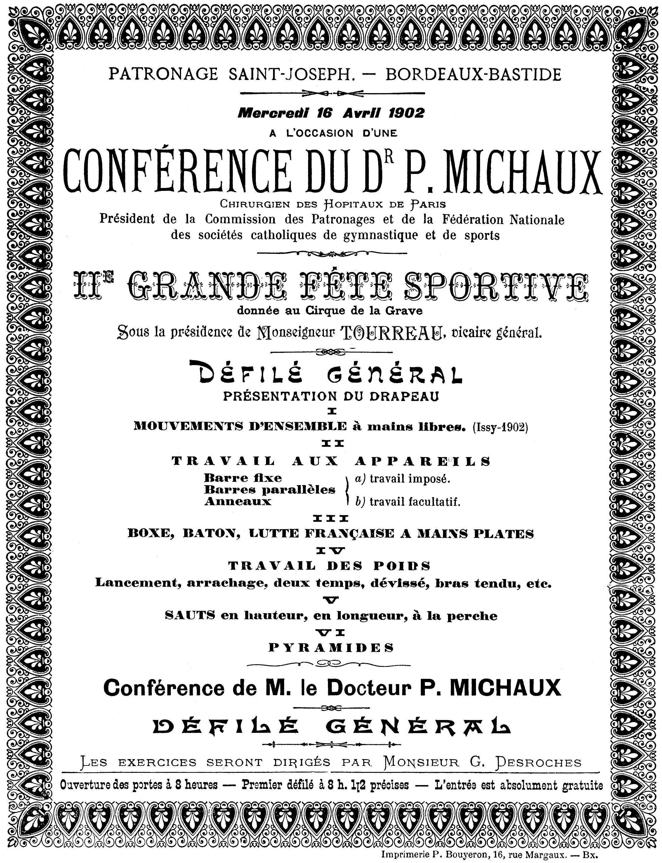 Poster of 1902, relating to a lecture given by Dr. Paul Michaux, surgeon, employed by the “Hôpitaux de Paris”, France. Dr. Paul Michau was also the President of the “Commission des patronages”, as well as the “Fédération nationale des sociétés catholiques de gymnastique et de sports”. This event was produced under the auspices of patronage of St. Joseph, in Bordeaux, la Bastide, France, under the chairmanship of Archbishop Tourreau, vicar. This poster was printed by P. Bouyeron printing, located at 16 rue Margaux, Bordeaux, France.